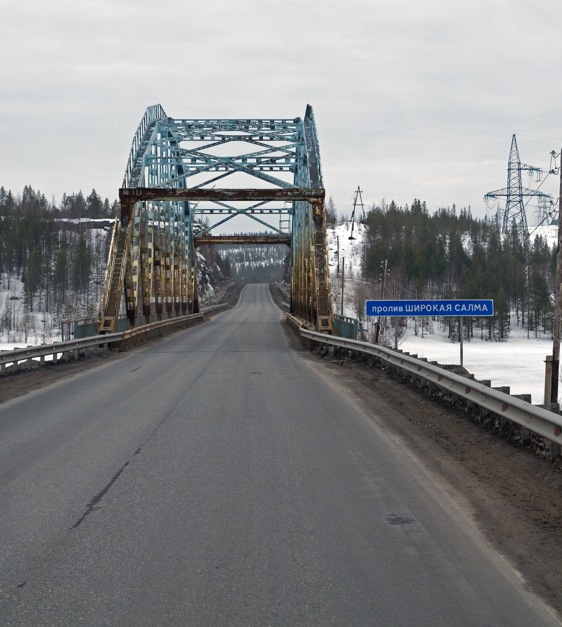 Bridge in M18-road in Russia, south from Monchegorsk.